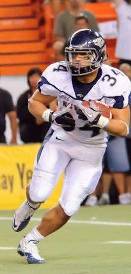 Vai Taua as running back of the Nevada Wolf Pack football team.